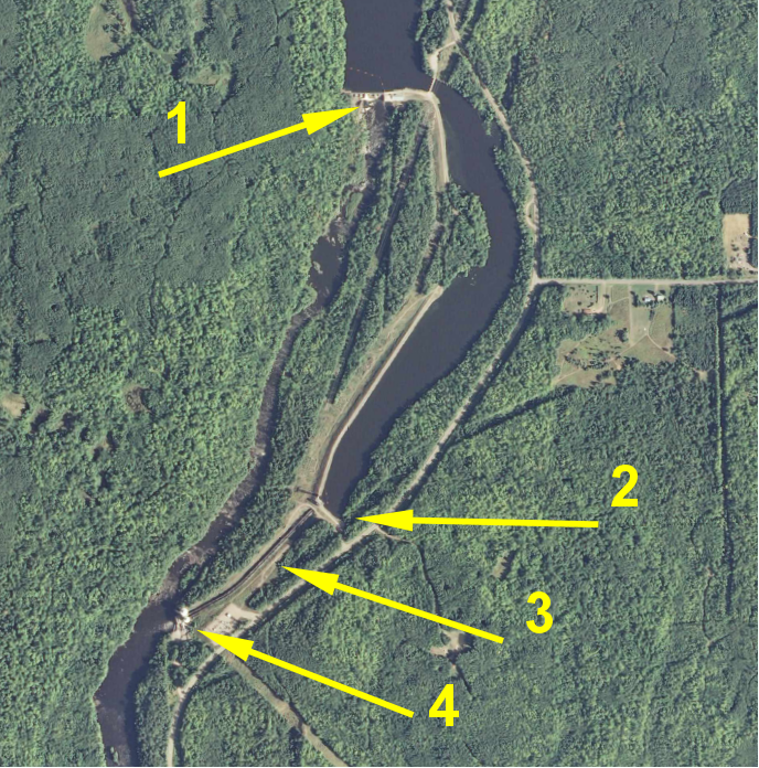 Better version of annotated satellite view for article on Grandfather Falls. Background image source is USGS (federal government). Annotations are mine. Satellite view of Grandfather Falls hydro complex. 1: upper dam. 2: penstock intake. 3: penstocks. 4: power house. The distance from the upper dam to the power house is about 1 mile.